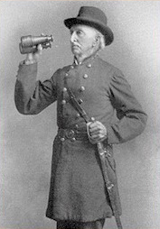 Col. John Jackson Dickison